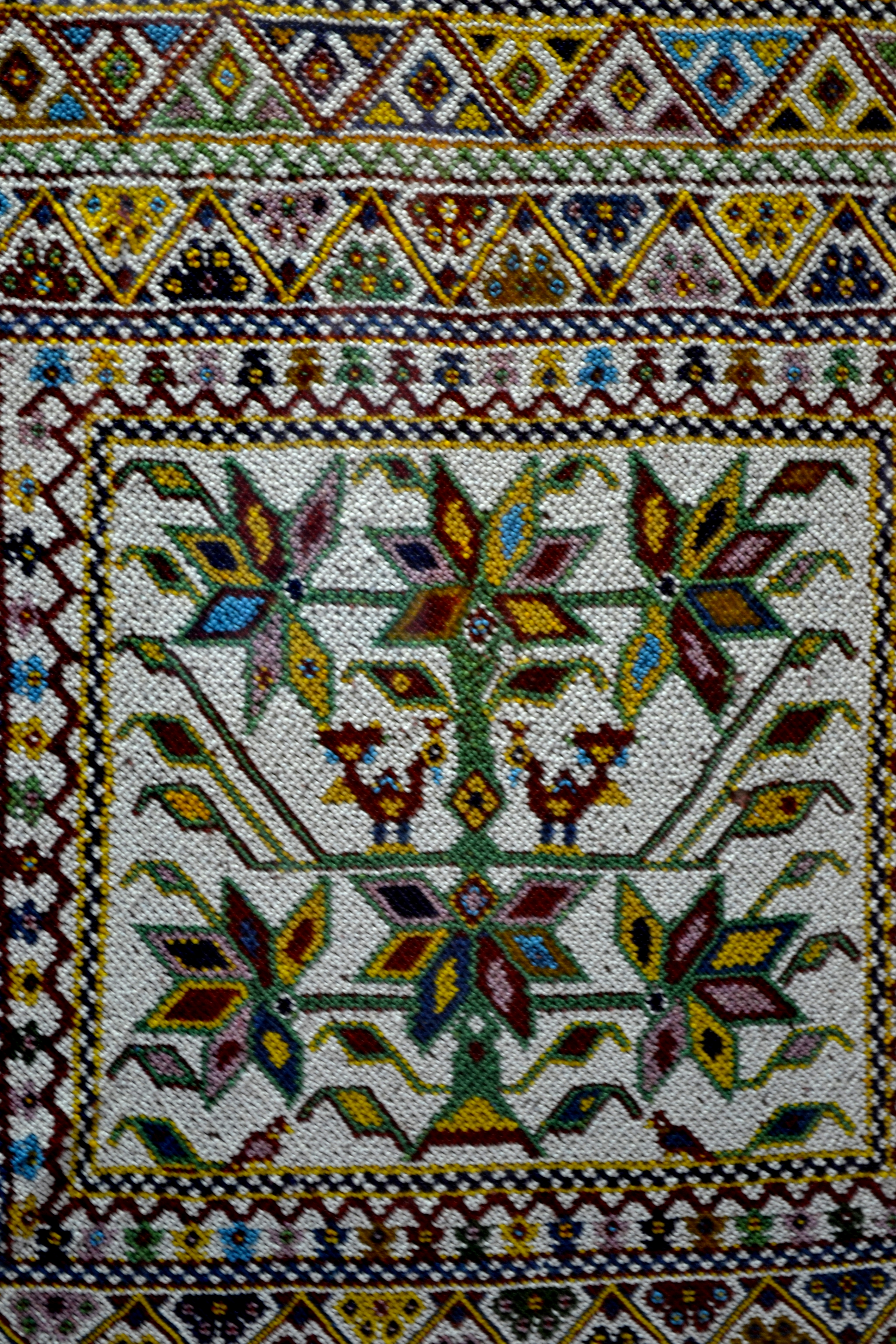 The sample of Bead Work made by the local communities of Jamnagar.